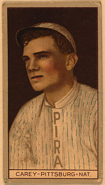 Max Carey baseball card, American Tobacco Company, 1912